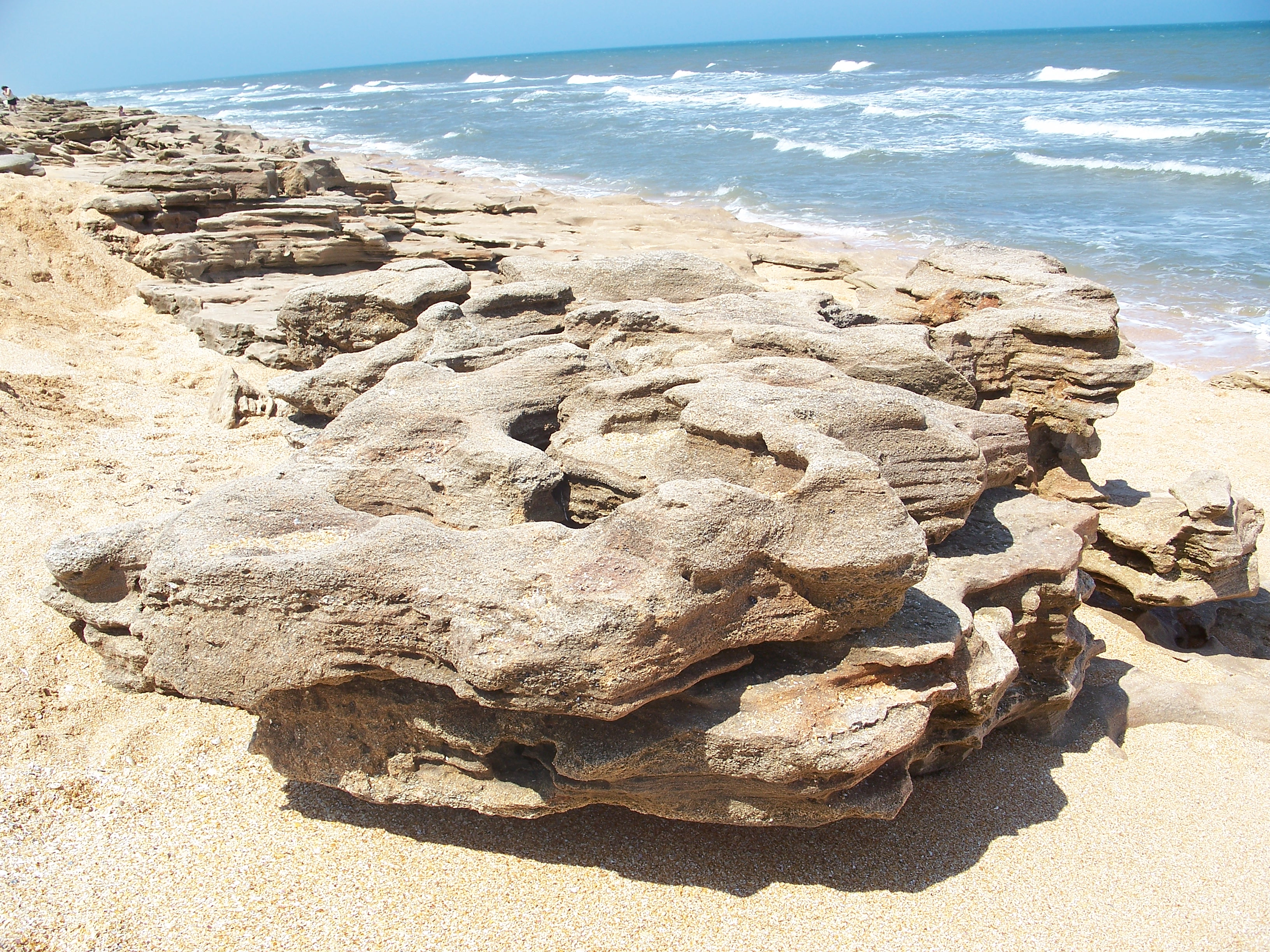 Coquina outcropping on the beach in Washington Oaks Gardens State Park, near Palm Coast, Florida